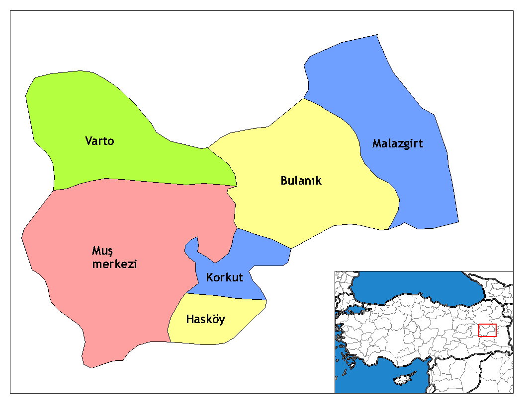 Map of the districts of Muş province in Turkey. Created by Rarelibra 16:38, 4 December 2006 (UTC) for public domain use, using MapInfo Professional v8.5 and various mapping resources. Edited by One Homo Sapiens Corrected text where İ,Ş,ı,ğ,or ş occurs in name. Source: [statoids-com]. Increased font size and enhanced color differences among adjacent districts.